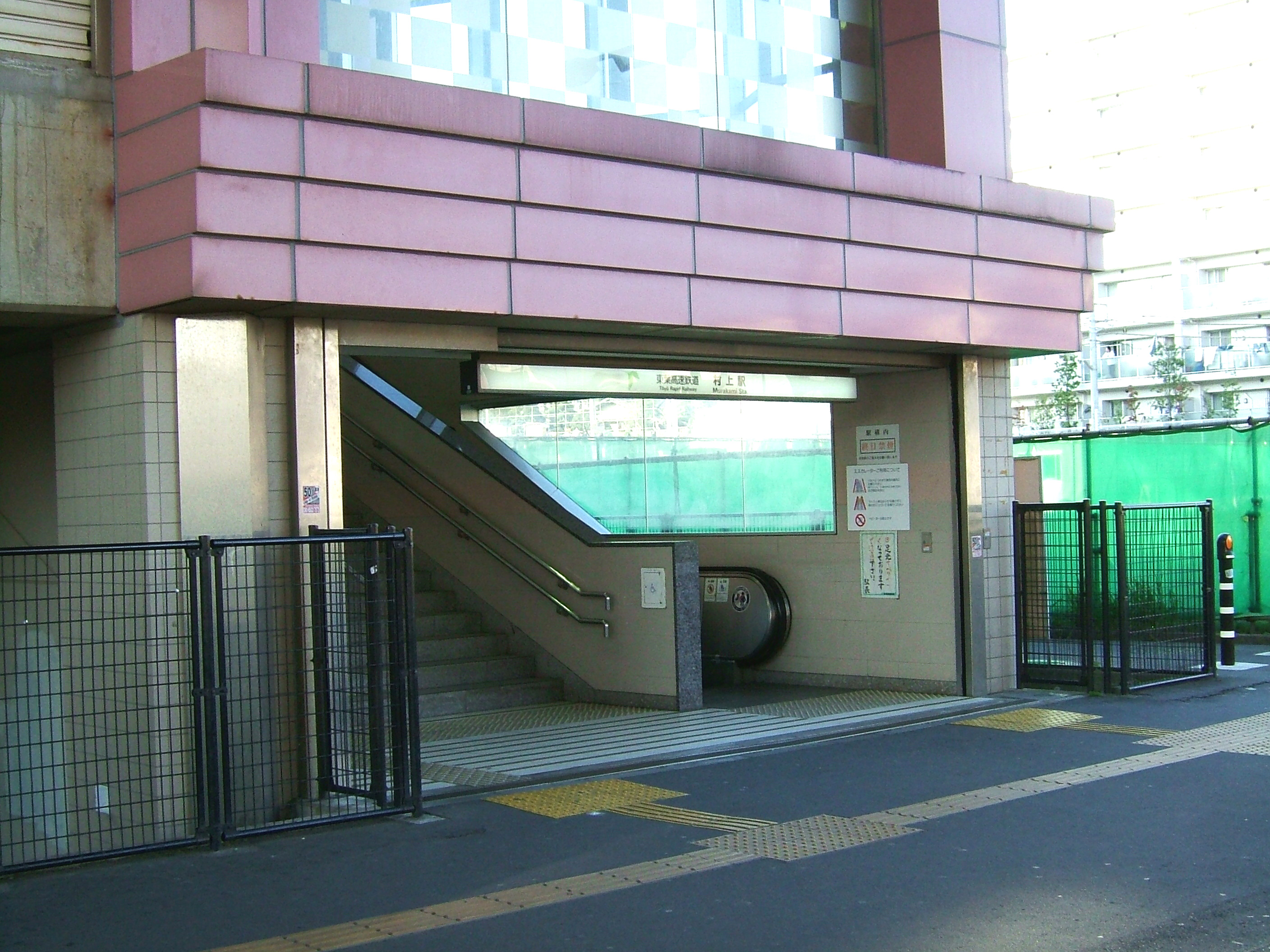 Murakami Station (Toyo Rapid Railway Line)